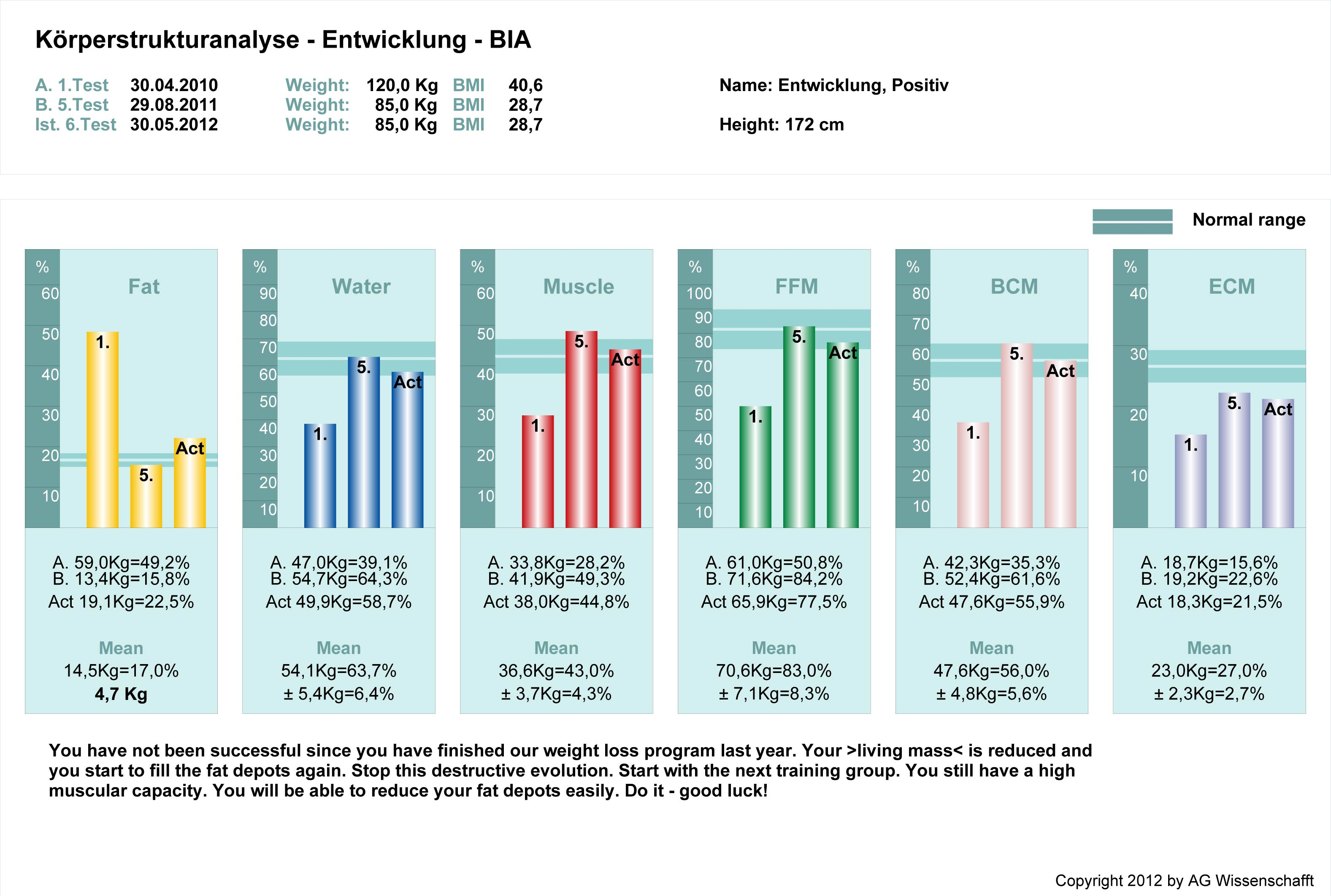 BIA Bioelectrical Impedance Analysis: Printout - Developement